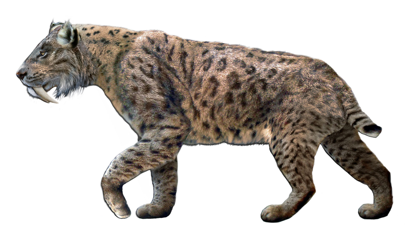 Smilodon fatalis life-restoration